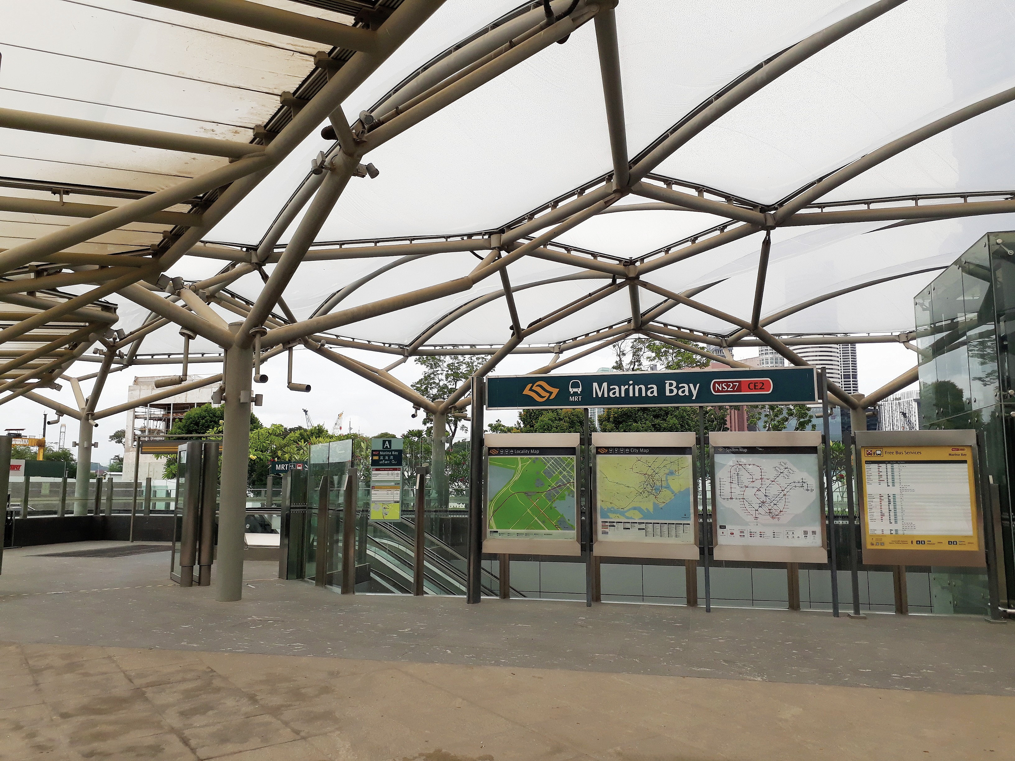 Marina Bay Exit A